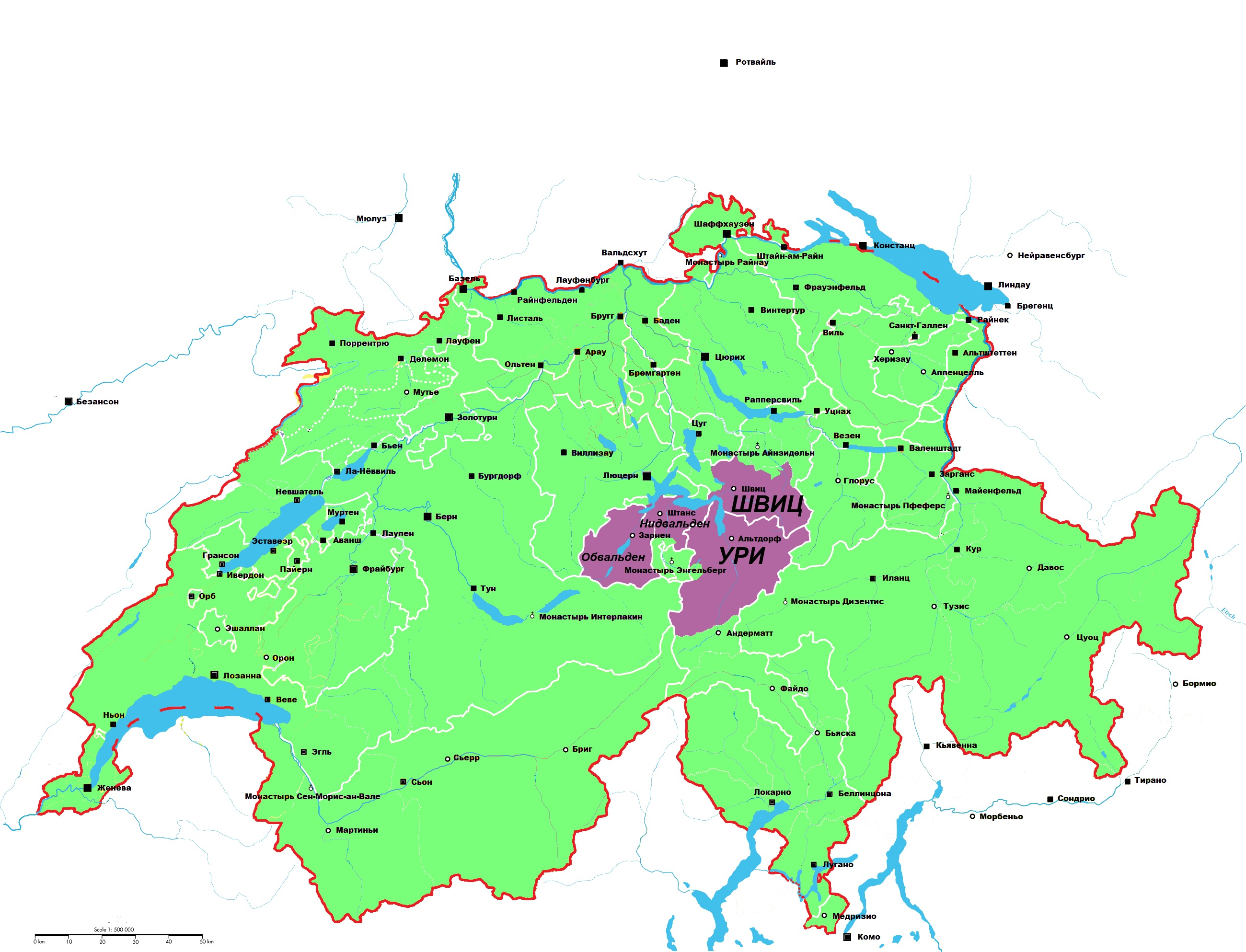 Borders of Switzerland in 1291